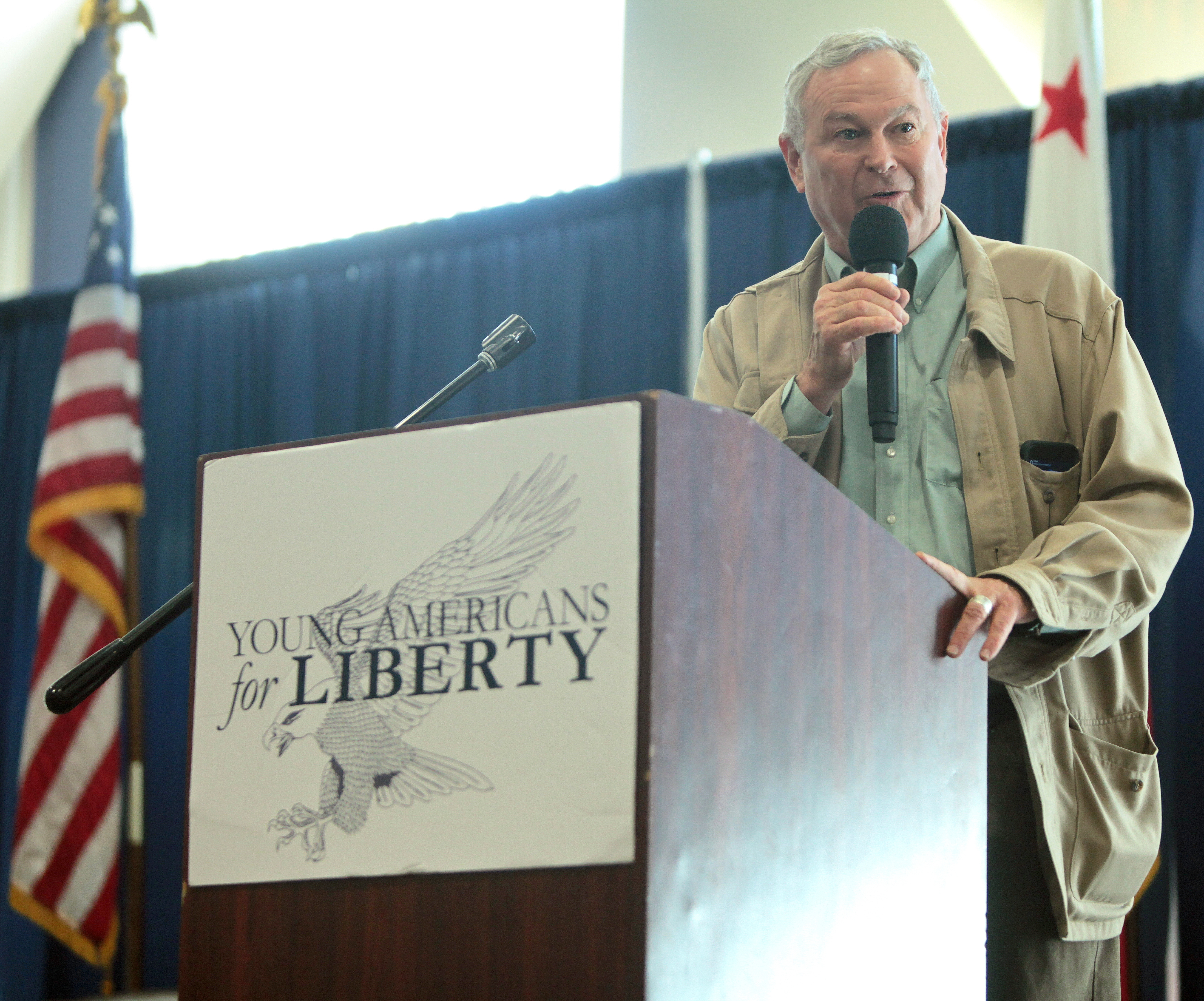 at the University of California, Irvine in Irvine, California